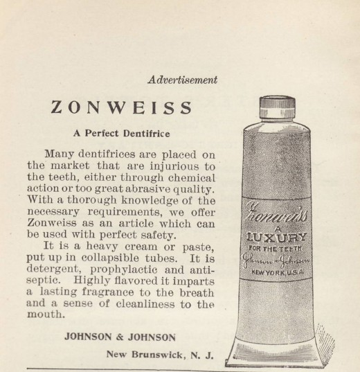 Advertisement for Zonweiss dentifrice in a collapsible tube by Johnson & Johnson (a similar ad can be found in the 1903 Johnson’s First Aid Manual.)